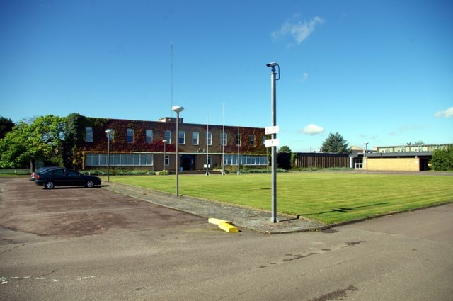 Potato Town The Maris Centre was formerly the Plant Breeding Institute, where the Maris Piper and other potato varieties were developed.